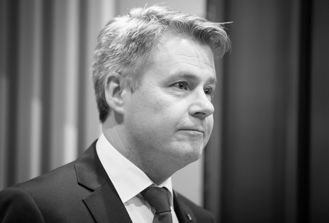 Per-Willy Amundsen at Governor Øystein Olsen's annual address in February 2017.